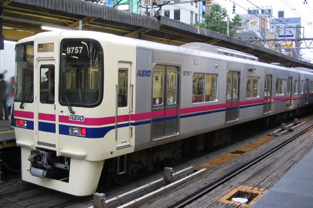 Keio series 9000 at Chōfu Station